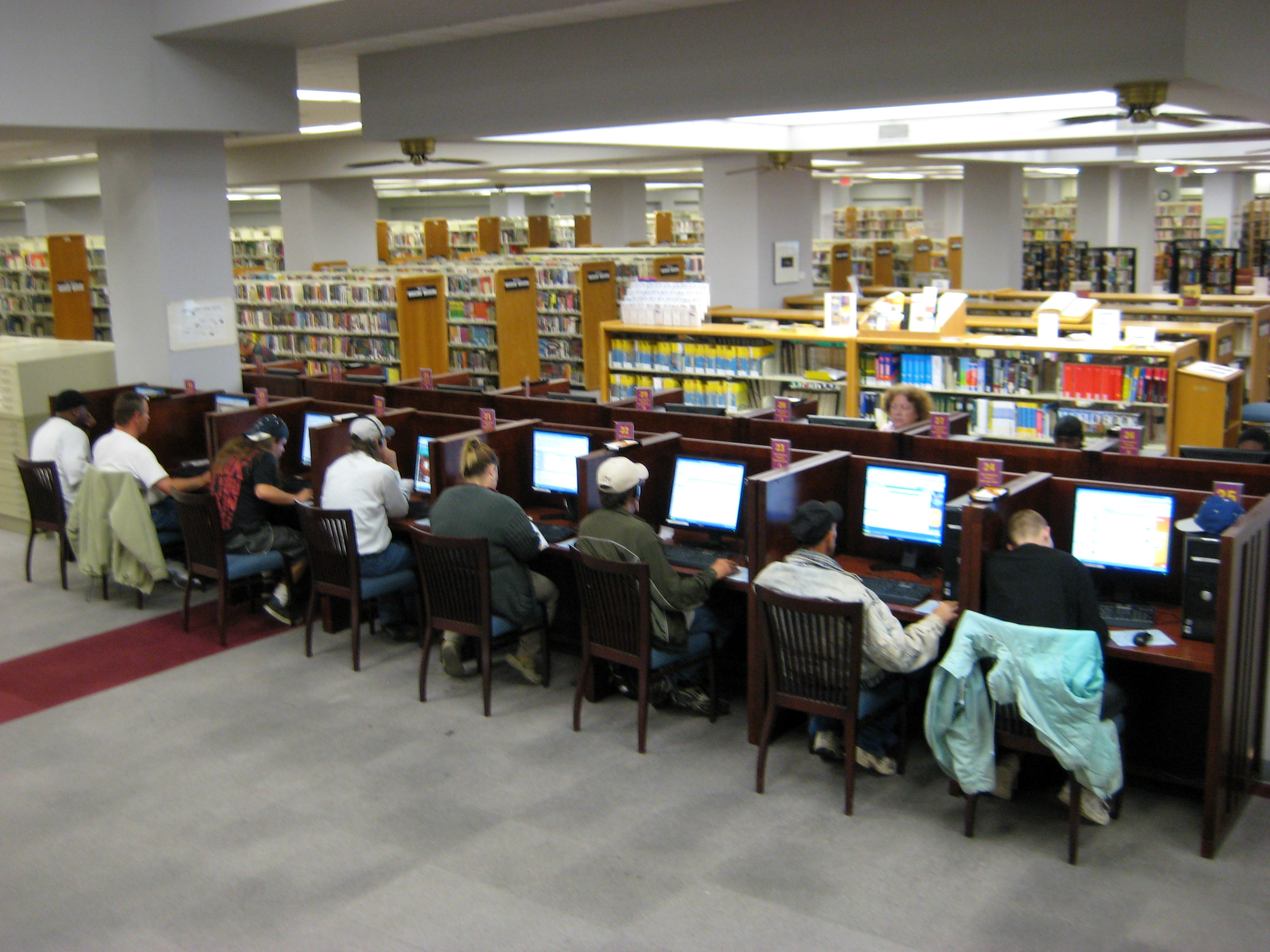 Lower level Public Access computers, Fort Worth Library